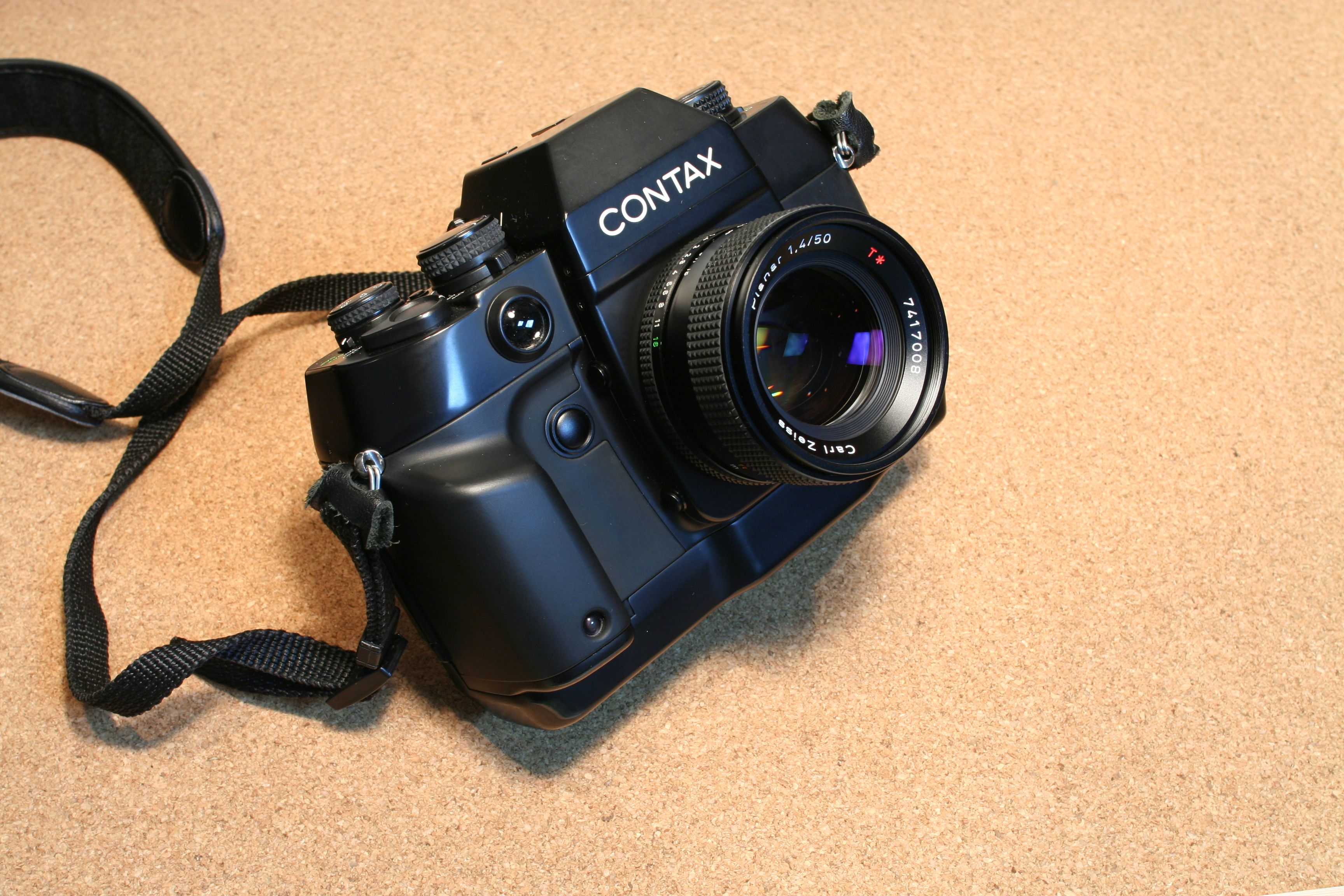 an SLR camera by Kyocera